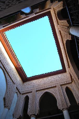 The Cooling effect of the Riad Laksiba Courtyard is no accident. Design: A water feature at the base of a Riad courtyard serves two purposes. Firstly, the obvious focal point but more importantly, the courtyards oper-air aperture channels warm air entering into the Riad which inturn passes over the water feature, cools down, thus assisting in the convection of heat to exit back through the Riad's open-air aperture. This style of natural air-conditioning has been prevelent in Morocco for millenia and is remarkably sucessful.